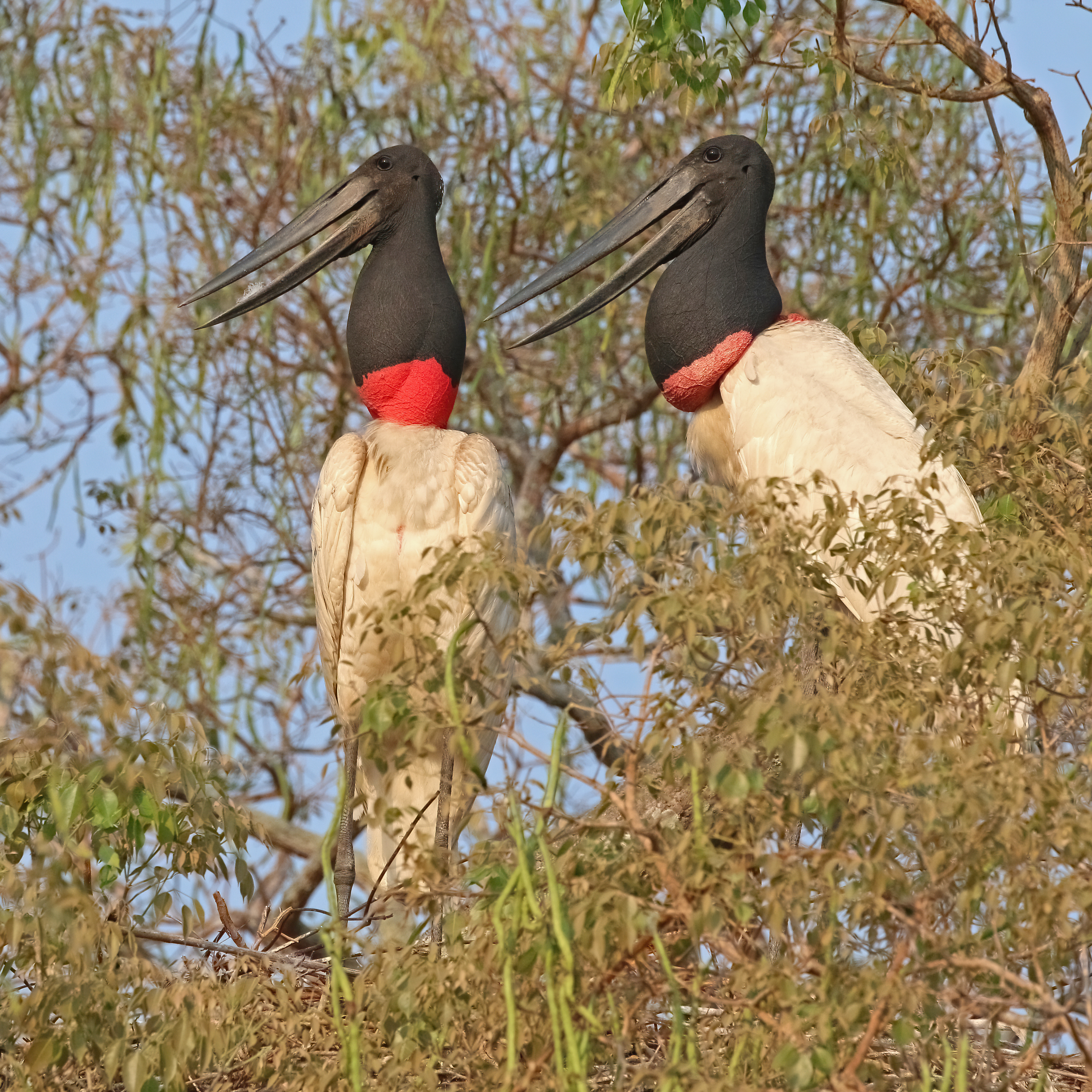 Jabiru (Jabiru mycteria) on nest, the Pantanal, Brazil